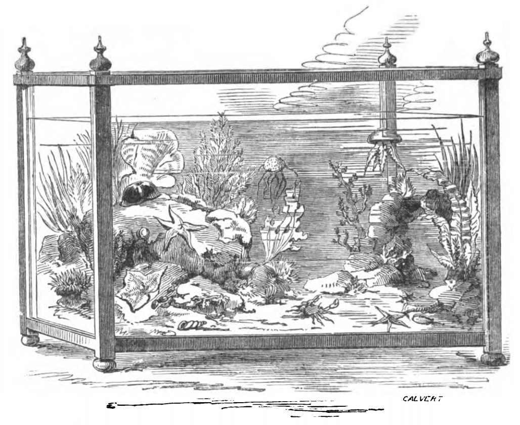 The Marine Aquarium (frontispiece), from the book Sea and River-side Rambles in Victoria""